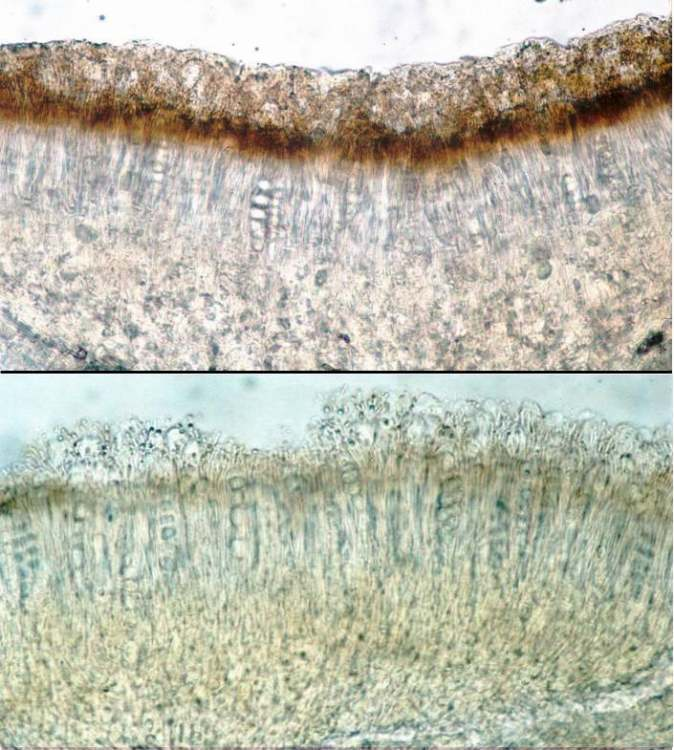 Lecanora pulicaris (Pers.) Ach., 1814 Photograph of cross sections of an apothecium from Lecanora pulicaris taken through a compound microscope (x400). The upper photo shows the epihymenium and hymenium before exposure to KOH solution. The lower photo shows the epihymenium and hymenium after exposure to KOH solution. Most of the color of the epihymenium disappears when flooded with KOH. This specimen of Lecanora pulicaris was growing on bark near the Endless Mountain Retreat, south on County Road 601, approximately 2.4 miles from US 250 in Highland County, Virginia, USA. Collected and identified by E.C. Uebel (No. U-416, 8 Jun 2002).